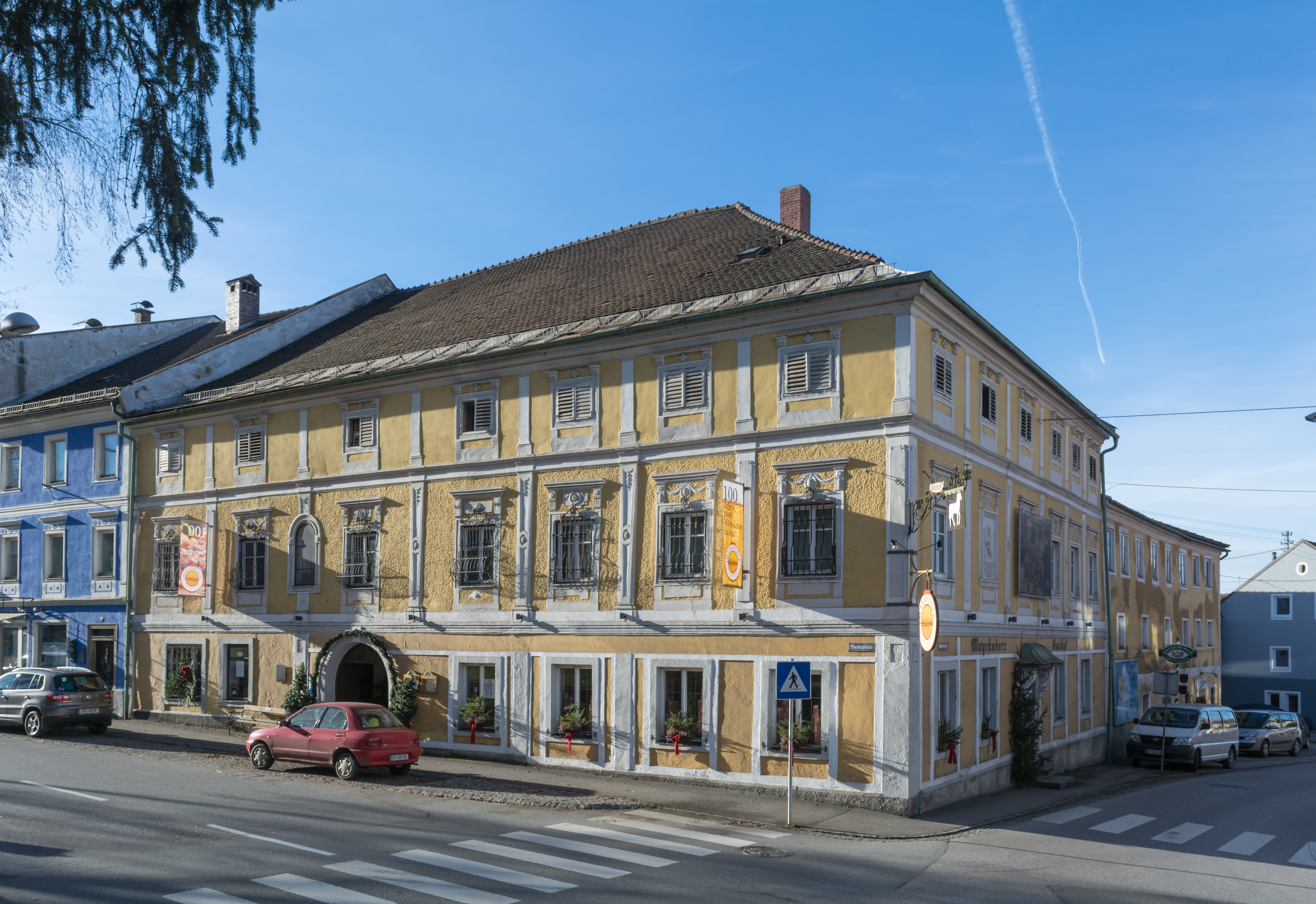 The inn "Zum Weißen Lamm" in Waizenkirchen (Upper Austria) was erected in 1587 as a brewery. Since 1656 it was also an Inn. The original building was destroyed by fire in 1704. The composer Wilhelm Kienzl was born here in 1857.